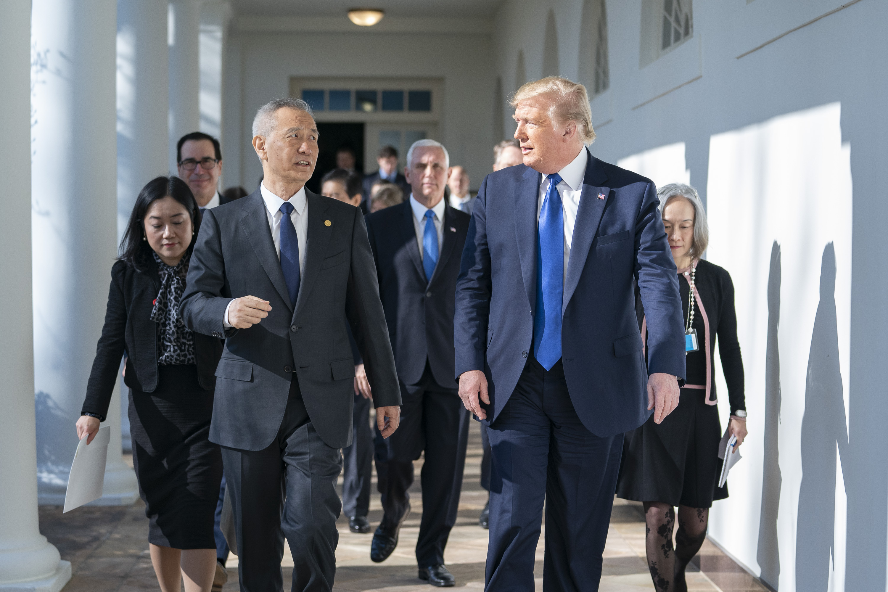 President Donald J. Trump joined by Chinese Vice Premier Liu He walk along the Colonnade Wednesday, Jan. 15, 2020, on their way to the signing ceremony of the U.S. China Phase One Trade Agreement in the East Room of the White House. (Official White House Photo by Shealah Craighead)